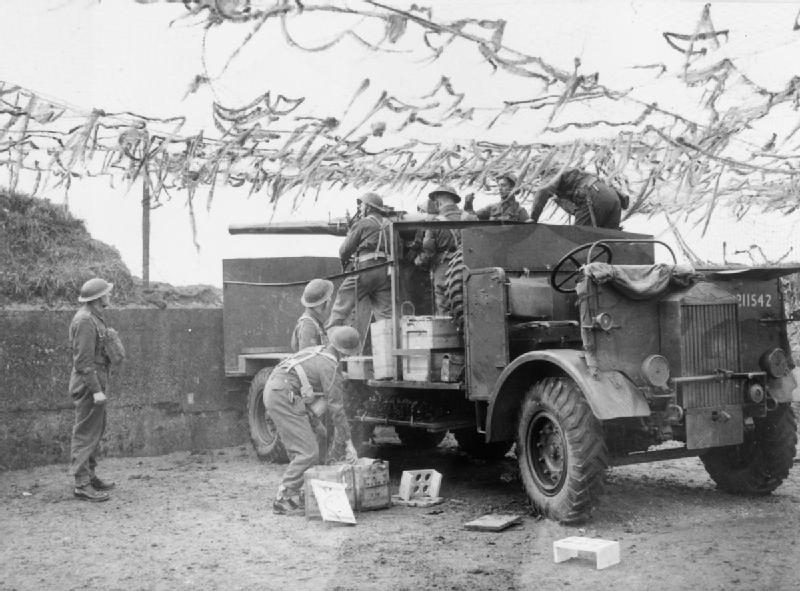 The British Army in the United Kingdom 1939-45 Troops man a mobile 12-pdr gun, mounted on the back of a lorry, at Fort Horsted, Chatham, 1 December 1940.